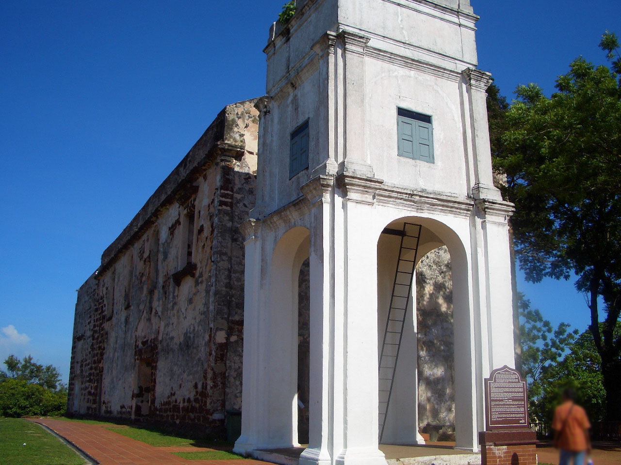 St. Paul`s Church